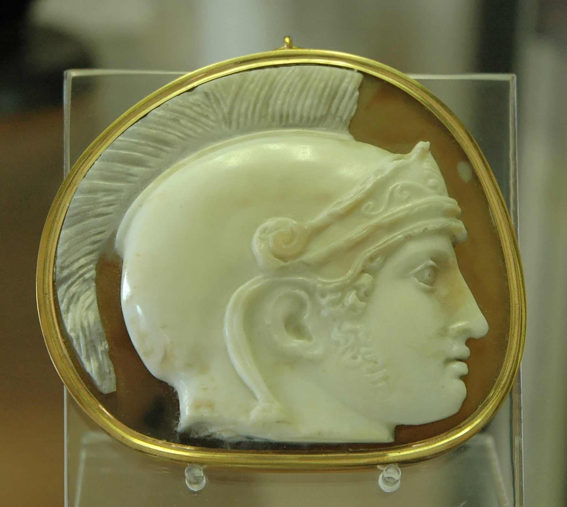 Sardonyx cameo representing a hellenistic king as Ares, 2nd century BC.